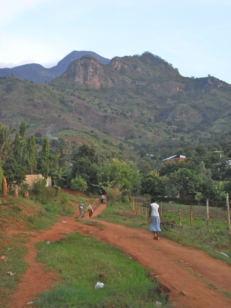 Uluguru Mountains, Tanzania